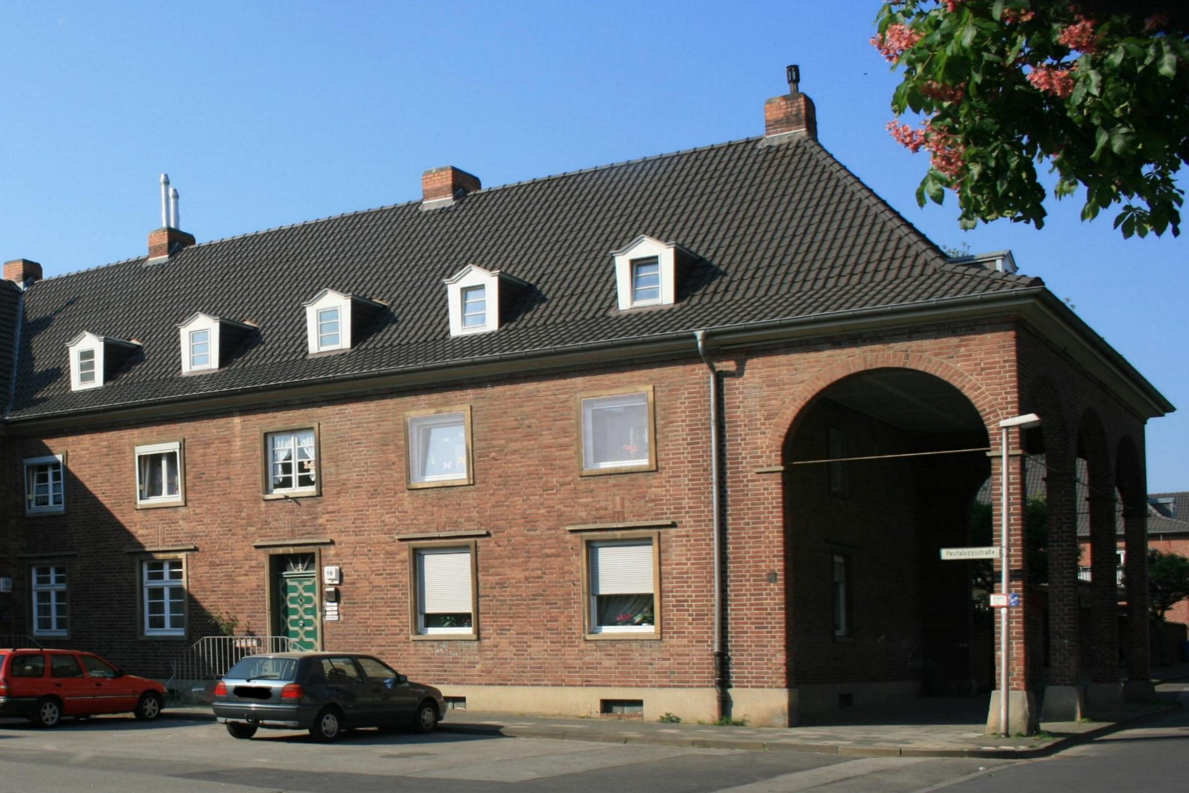 Cultural heritage monument No. 1/052 in Düren